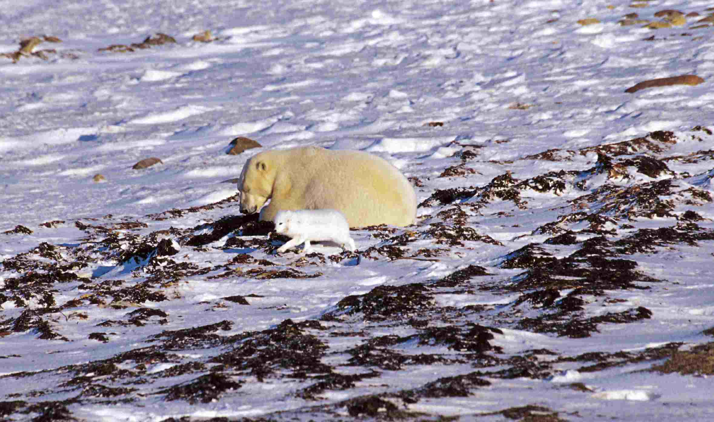 Polar bear & polar fox (Wapusk National Park, Manitoba, Canada)